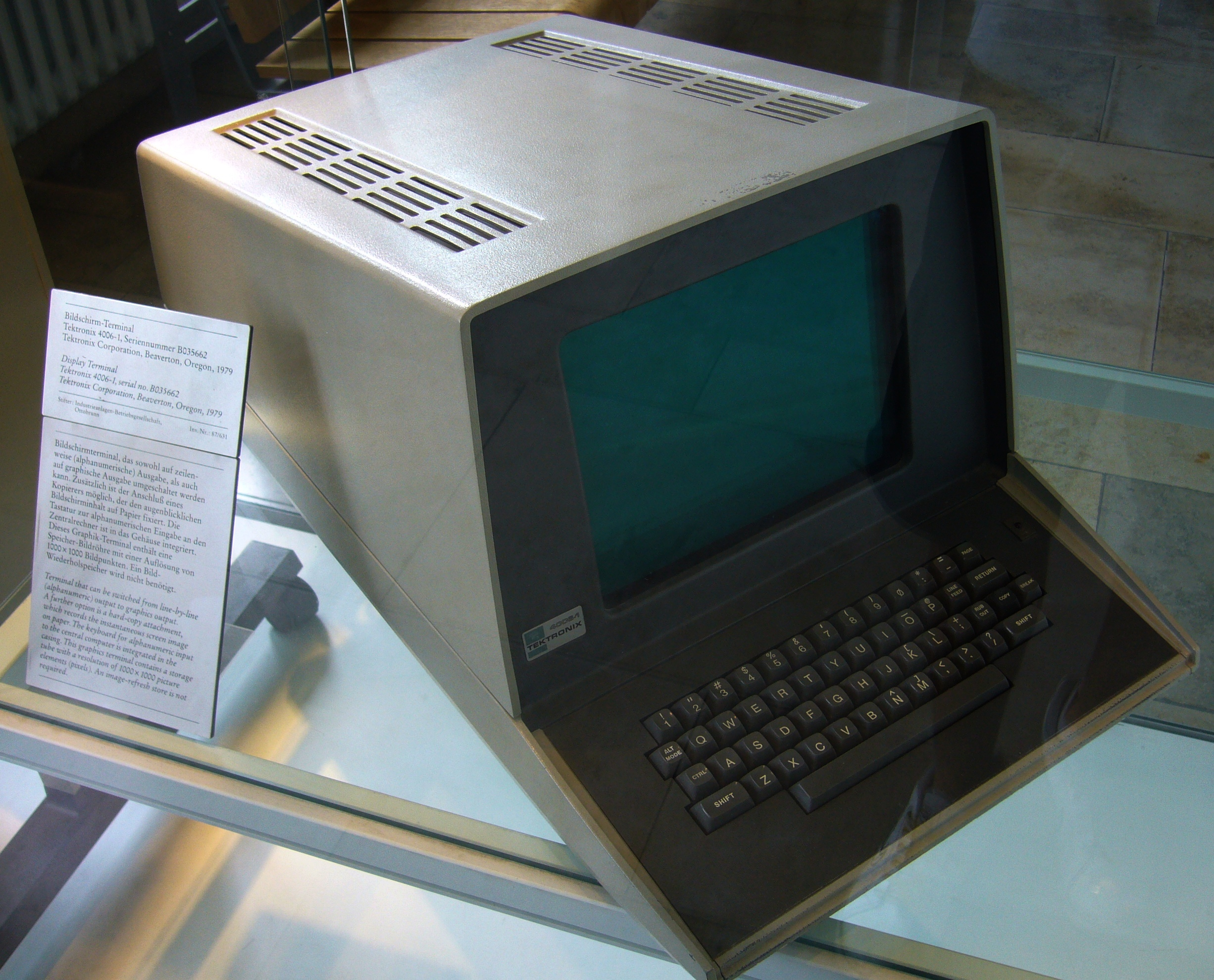 Tektronix 4006 video terminal, at Deutsches Museum in Munich.